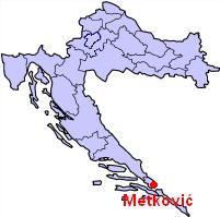 Locator map of Metković in Croatia.